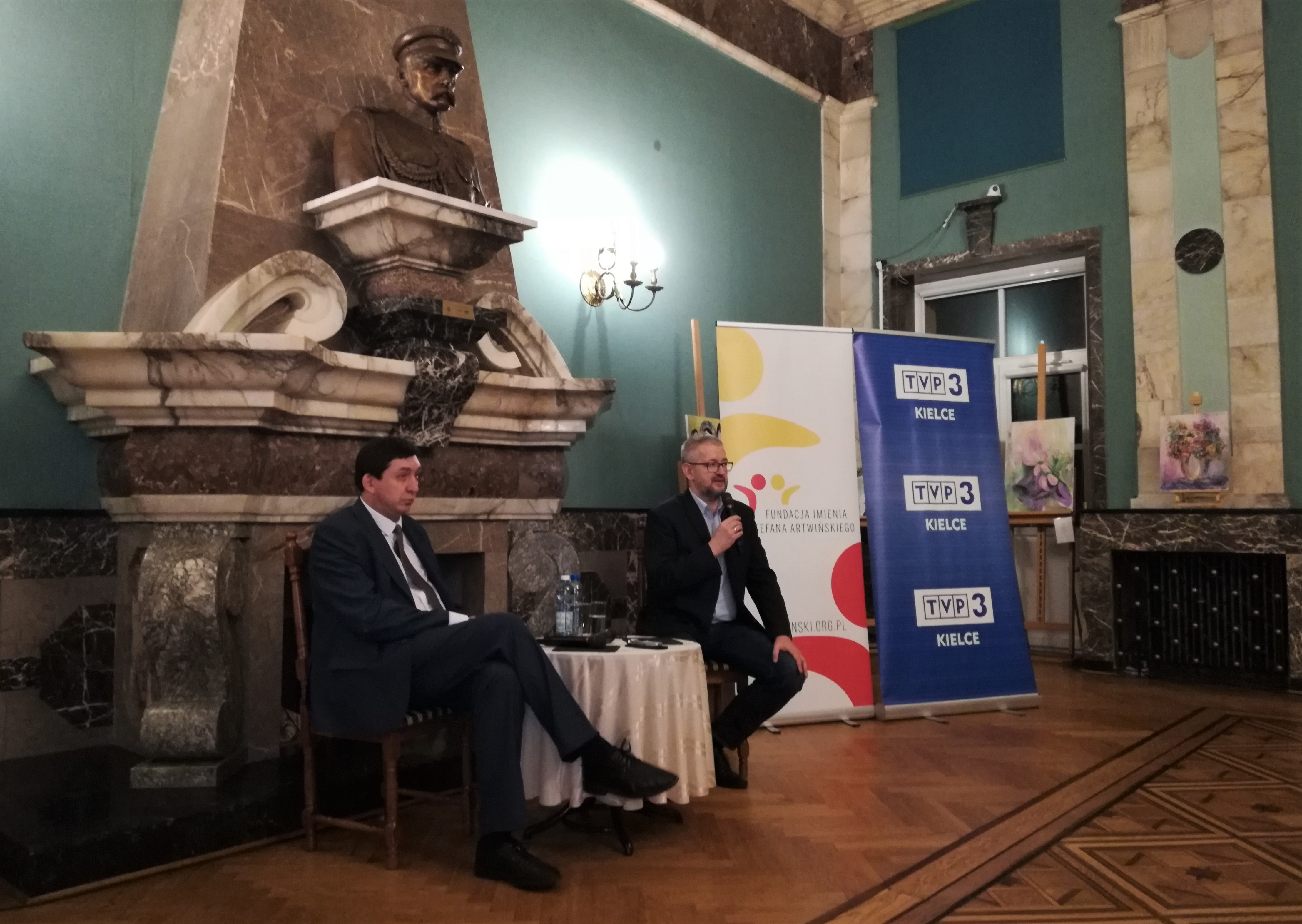 Professor Marek Kornat and editor Rafał Ziemkiewicz - Regional Cultural Center in Kielce, November 21, 2018